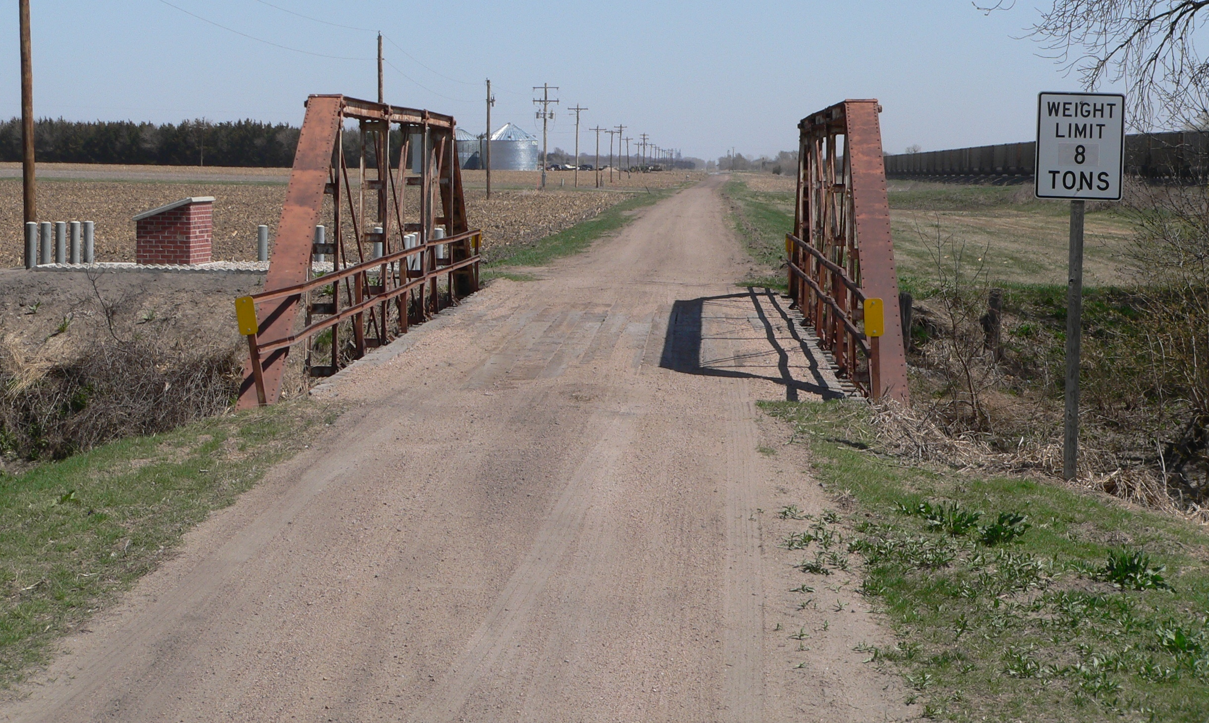 Section of Lincoln Highway in southwestern Platte County, Nebraska; looking northeastward across the Prairie Creek bridge. This is part of a 1.2-mile (2.0 km) section of the highway that is listed in the National Register of Historic Places under the name Lincoln Highway-Gardiner Station. The sloping-topped brick structure at left is a Nebraska state historical marker.